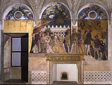 north wall of the Camera degli Sposi in the north east tower of the Castello di San Giorgio, Mantua